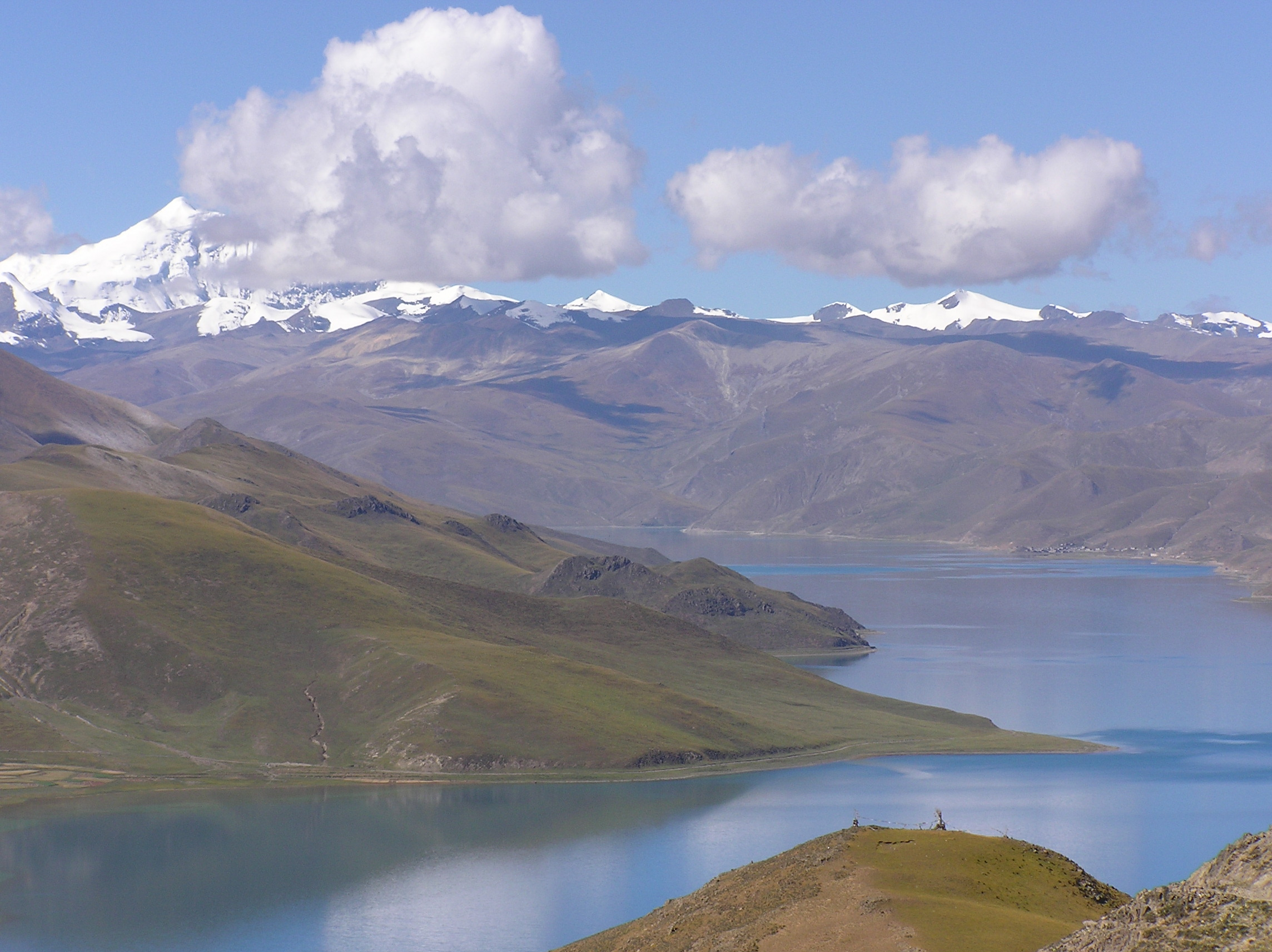 Yamdrok Tso - holy lake in tibet